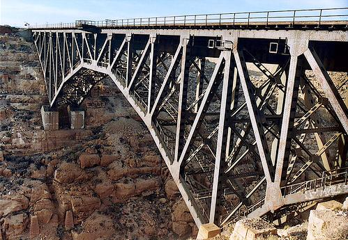 Steel Arch railroad bridge spanning Canyon Diablo (Devil's Canyon) near Two Guns, Arizona between Flagstaff and Winslow, north of Interstate I-40. Additional Bridge Photos and a Bridge Blog at